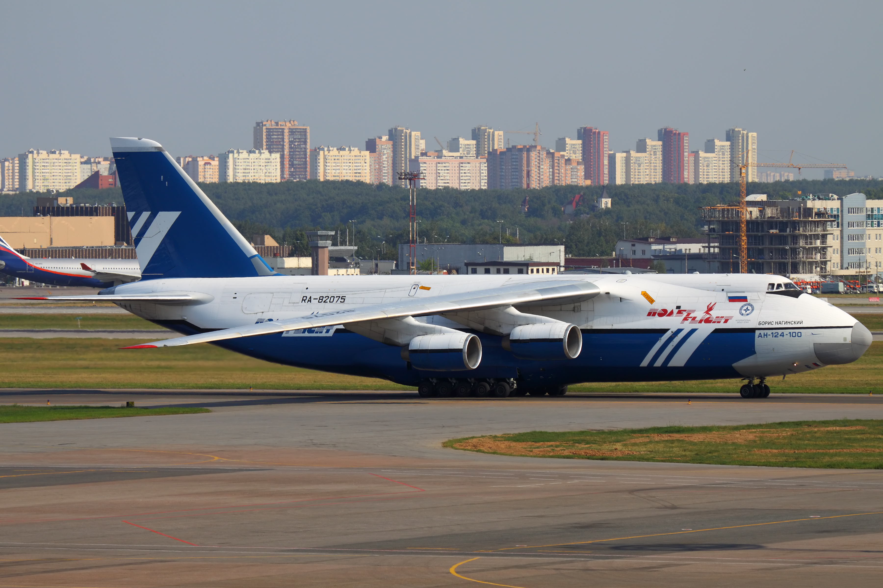 Polet Airlines Antonov An-124-100 RA-82075 taxiing for takeoff at Moscow Sheremetyevo airport.